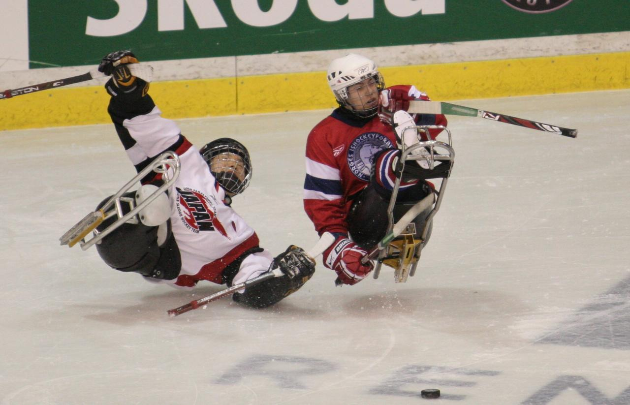 Loyd Remi Johansen in Norway's semi final against Japan, in 2009 IPC Ice Sledge Hockey World Championships (Ostrava, Czech Republic).